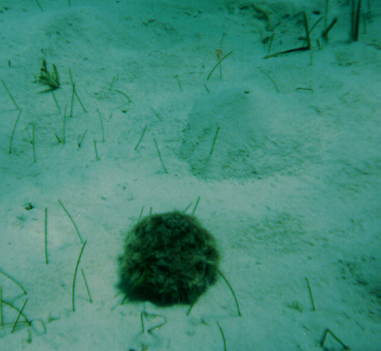 A west indian sea egg, Tripneustes ventricosus, and a Callianassid shrimp mound, Graham's Harbour, San Salvador Island, Bahamas, taken June 20, 1999.